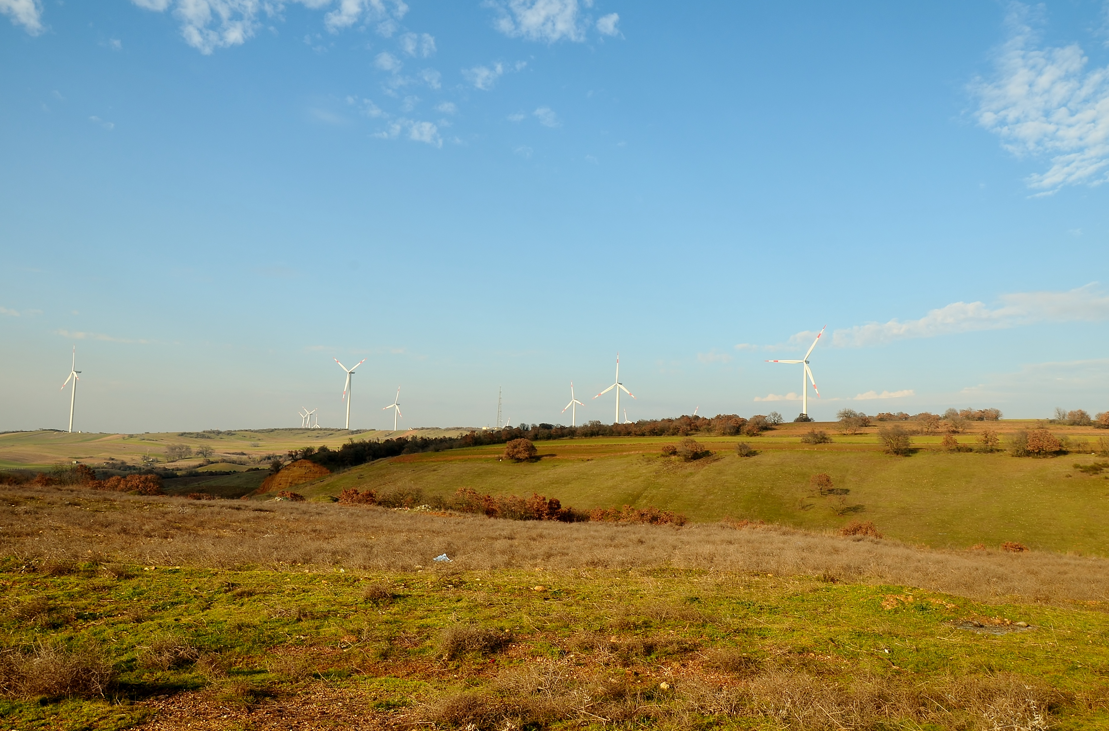 Çanta Wind Farm of Boydak Energy Co. at Çanta, Silivri in Istanbul, Turkey